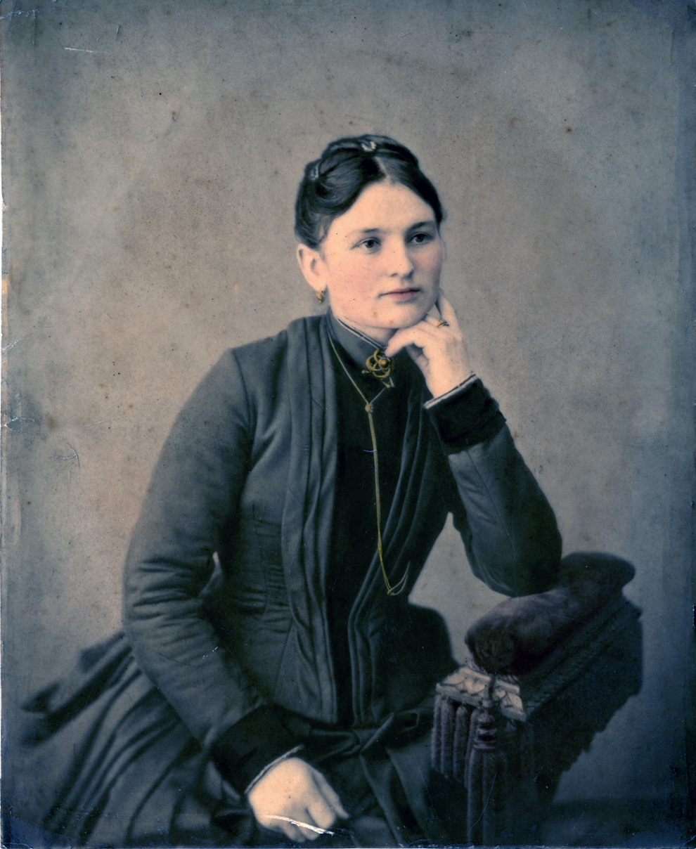 Top layer of chromophotography by Alexander Seik, approx. 1870. It is made transluscent by wax.